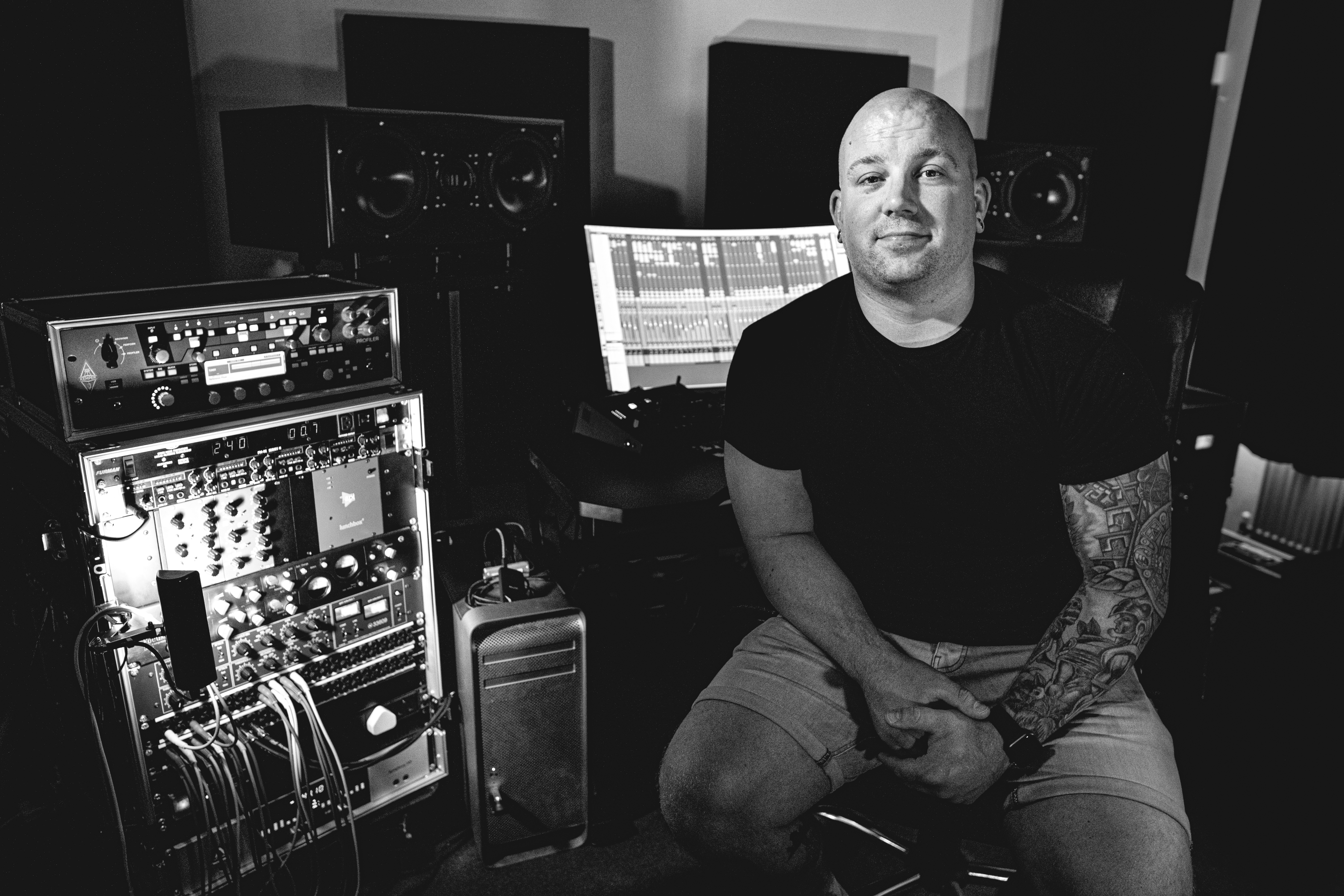 Jack Stephens Producer